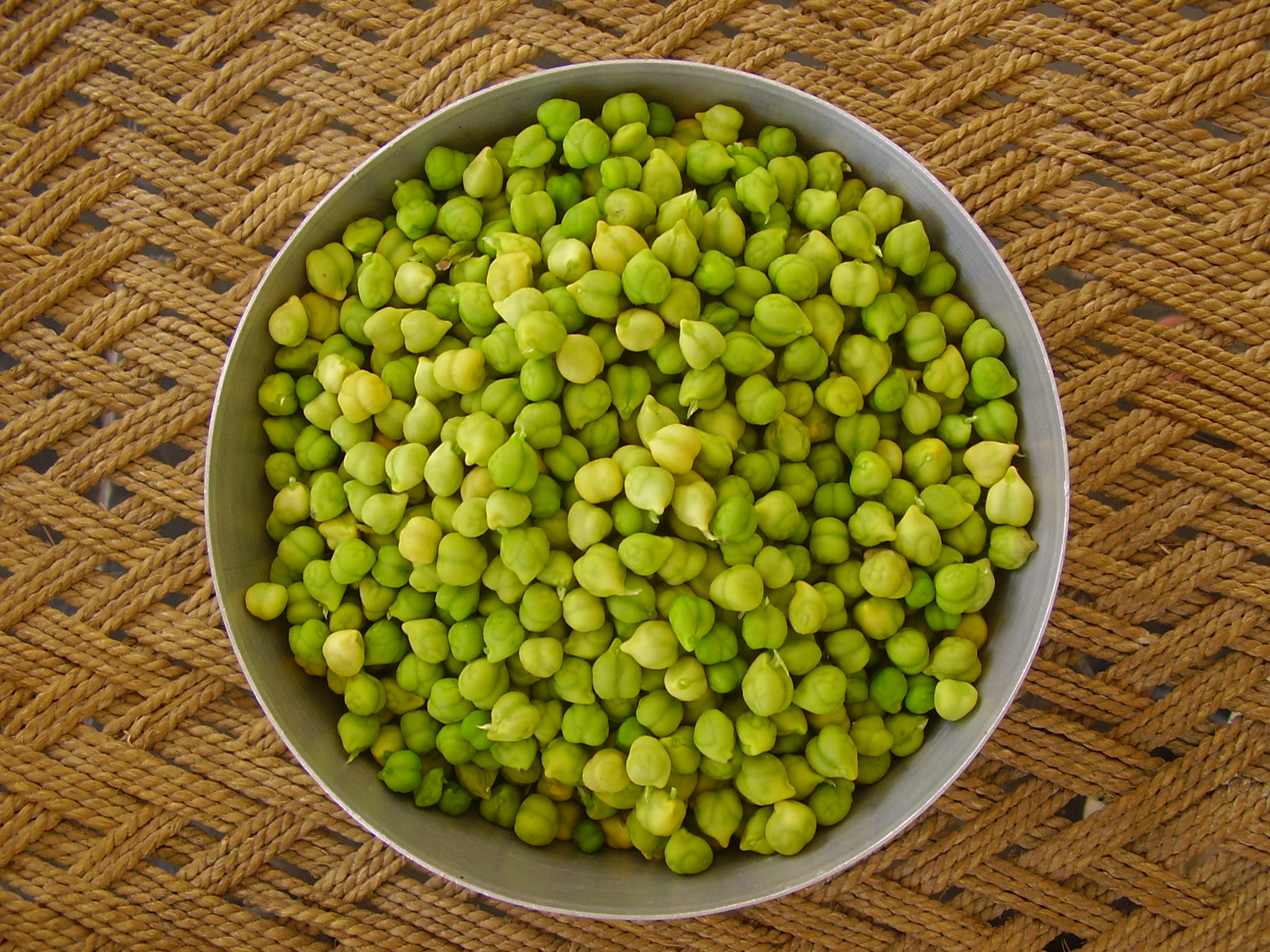 Fresh green seeds of pulse (chick peas?) for cooking purpose.